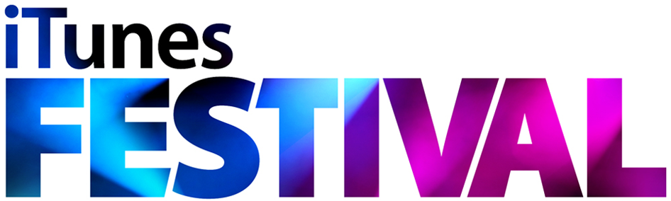 Logo for the 2010 iTunes Festival